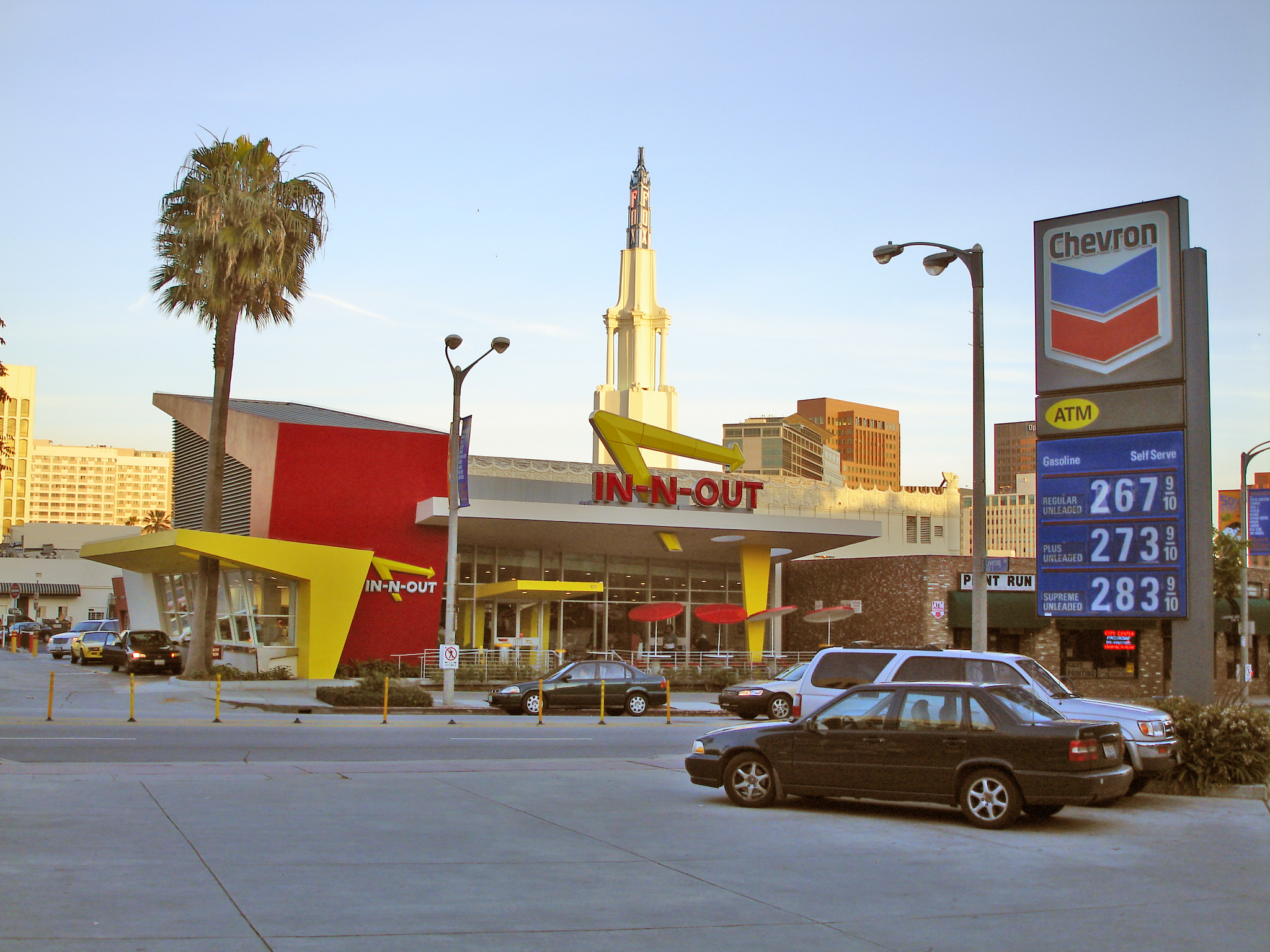 The famous In N Out in Westwood where many UCLA students congregate (Picture by Mike Downey 3/4/06)